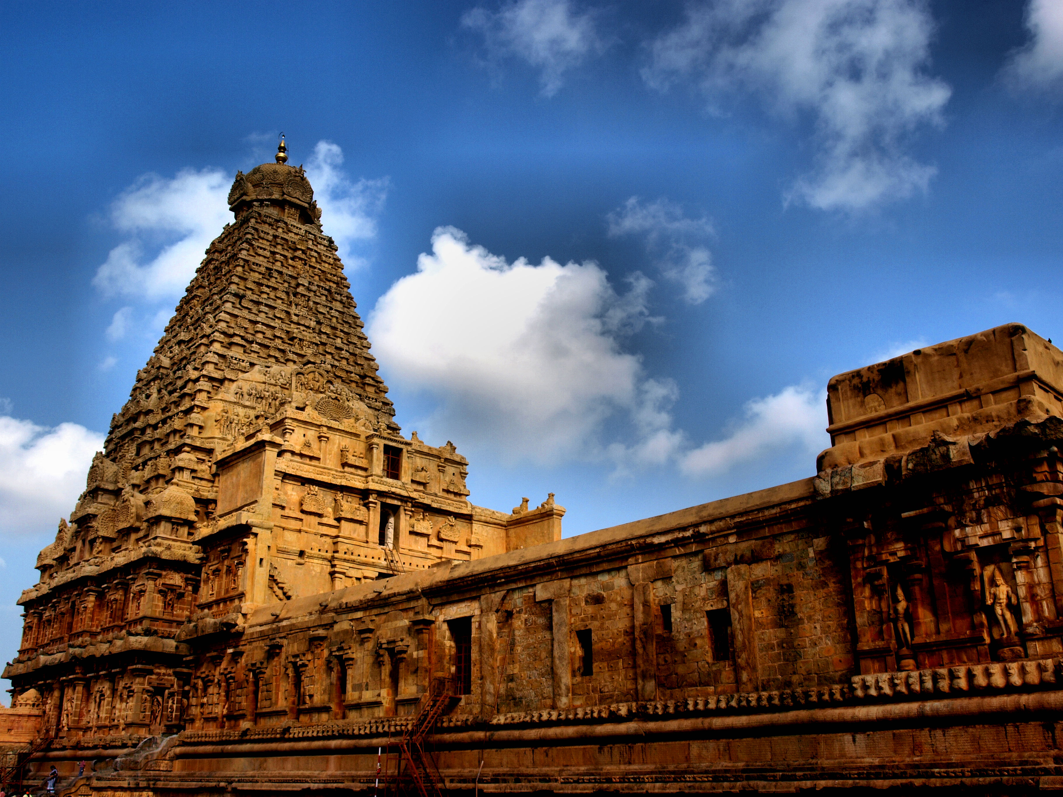 The Peruvudaiyar Koyil also known as Brihadeeswarar Temple and Rajarajeswaram, at Thanjavur in the Indian state of Tamil Nadu, is the world's first complete granite temple and a brilliant example of the major heights achieved by Cholas in Tamil architecture. It is a tribute and a reflection of the power of its patron RajaRaja Chola I. It remains India's largest temple and is one of the greatest glories of Indian architecture. The temple is part of the UNESCO World Heritage Site "Great Living Chola Temples".